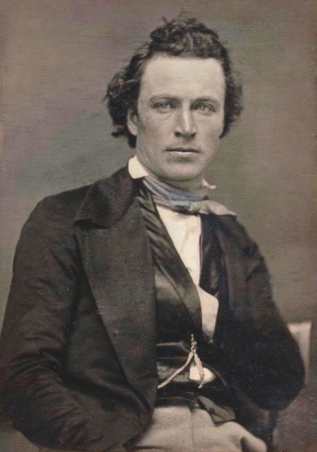 Portrait photograph of actor James Stark. Cropped, retouched to hide some damage and the frame, brightened. File format changed.